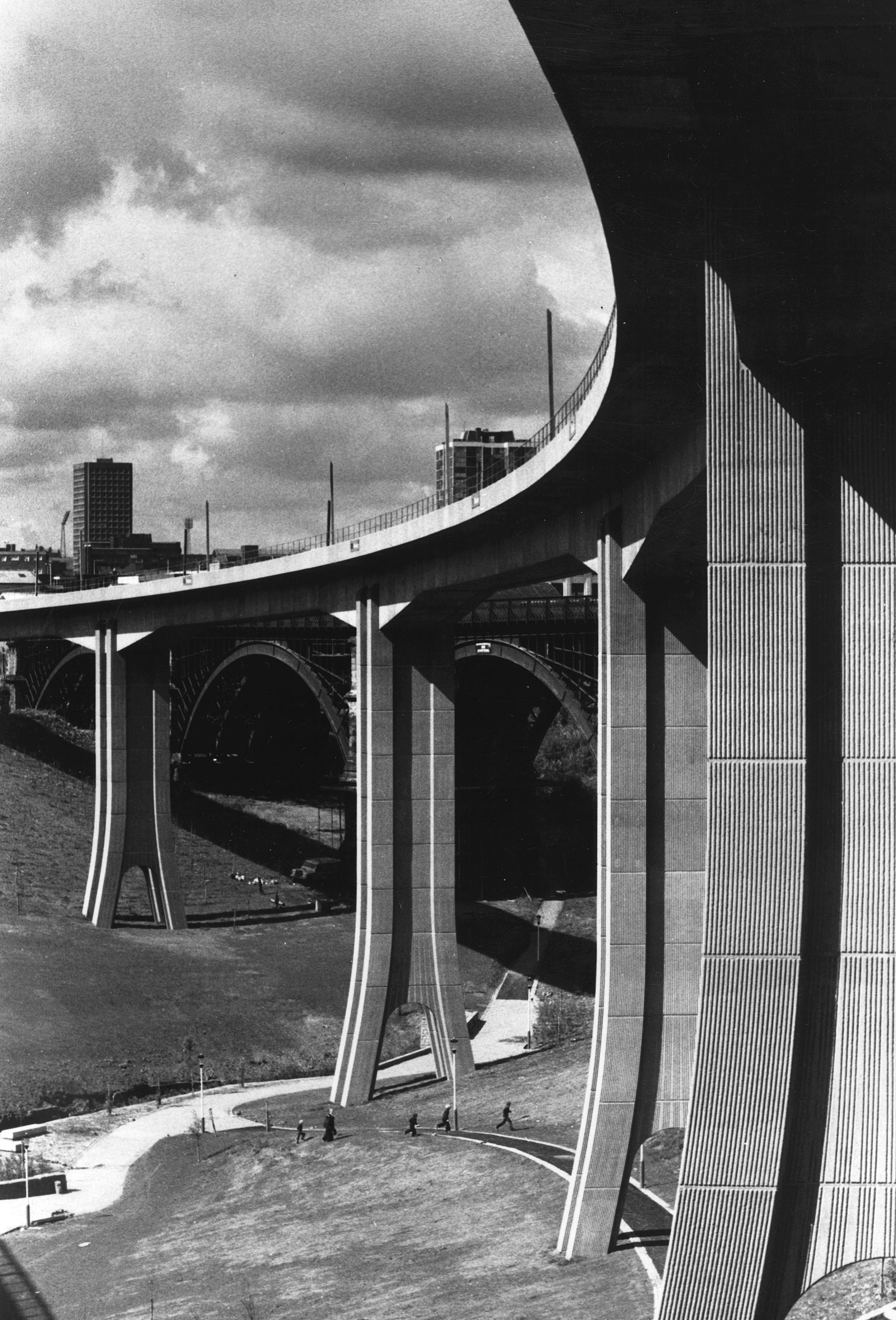 This photograph shows a completed view of the Byker Viaduct in the summer of 1979. The image is taken from a series documenting construction, improvement and reinstatement works to the Ouseburn Valley and Byker Station track work, concourse maintenance room and platforms. The images are taken from the Mott, Hay and Anderson collection, consulting civil engineers responsible from the Tyneside Metro light rail system and the Tyne Pedestrian, cyclist and vehicular tunnels. The photographers were Turners (Photography) Ltd of 7-15 Pink Lane, Newcastle. Reference no. DT.MHA/8/6/4914/37/11A This image inspired ‘Interchange’, an experimental film and album of music by Warm Digits. More information can be found here (Copyright) We're happy for you to share this digital image within the spirit of The Commons. Please cite 'Tyne & Wear Archives & Museums' when reusing. Certain restrictions on high quality reproductions and commercial use of the original physical version apply though; if you're unsure please